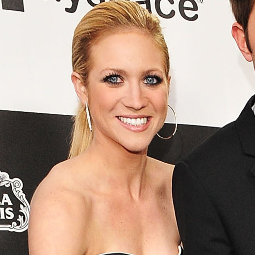 (L-R) Actress Brittany Snow, Adam Scott and writer/director Lee Toland Krieger with the LG Electronics Kompressor Vacuum on The 25th Spirit Awards Blue Carpet held at Nokia Theatre L.A. Live on March 5, 2010 in Los Angeles, California. Stars Take on Charitable Chore with LG Electronics Kompressor Vacuum on The 25th Spirit Awards Blue Carpet Nokia Theatre L.A. Live Los Angeles, CA United States March 5, 2010 Photo by George Pimentel/WireImage.com